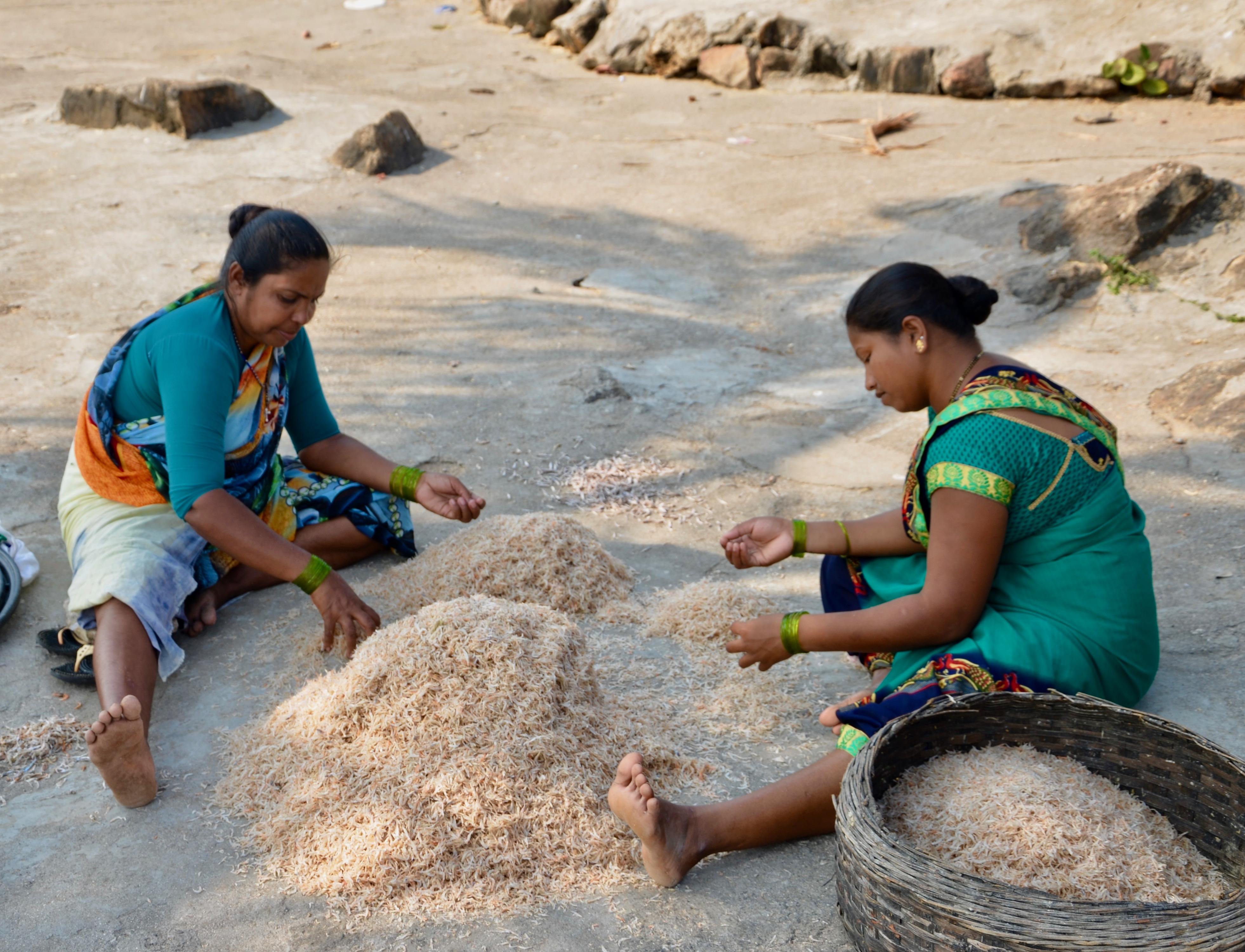 women cleaning dry fish @ Uttan - Velankanni Beach